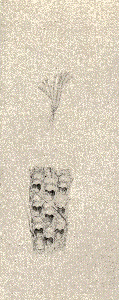 Caberea Eillsii Subject: Gymnolaemata Tag: Invertebrates